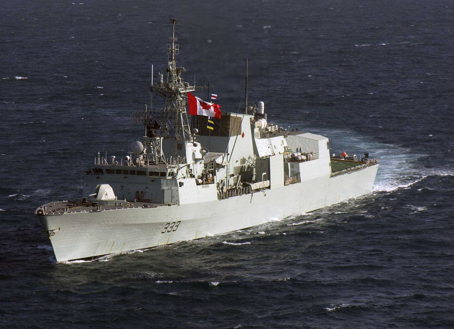 Halifax-class frigate HMCS Toronto (FFH 333) 040603-N-5319A-001 Arabian Gulf (Jun. 3, 2004) - The Halifax-class frigate Her Majesty's Canadian Ship (HMCS) Toronto (FFH 333) cruises ahead of USS George Washington (CVN 73) during a strike group photo formation while operating in the Arabian Gulf. The Halifax, Nova Scotia-based frigate joined the Norfolk, Va. based aircraft carrier on a scheduled deployment in support of Operation Iraqi Freedom (OIF).